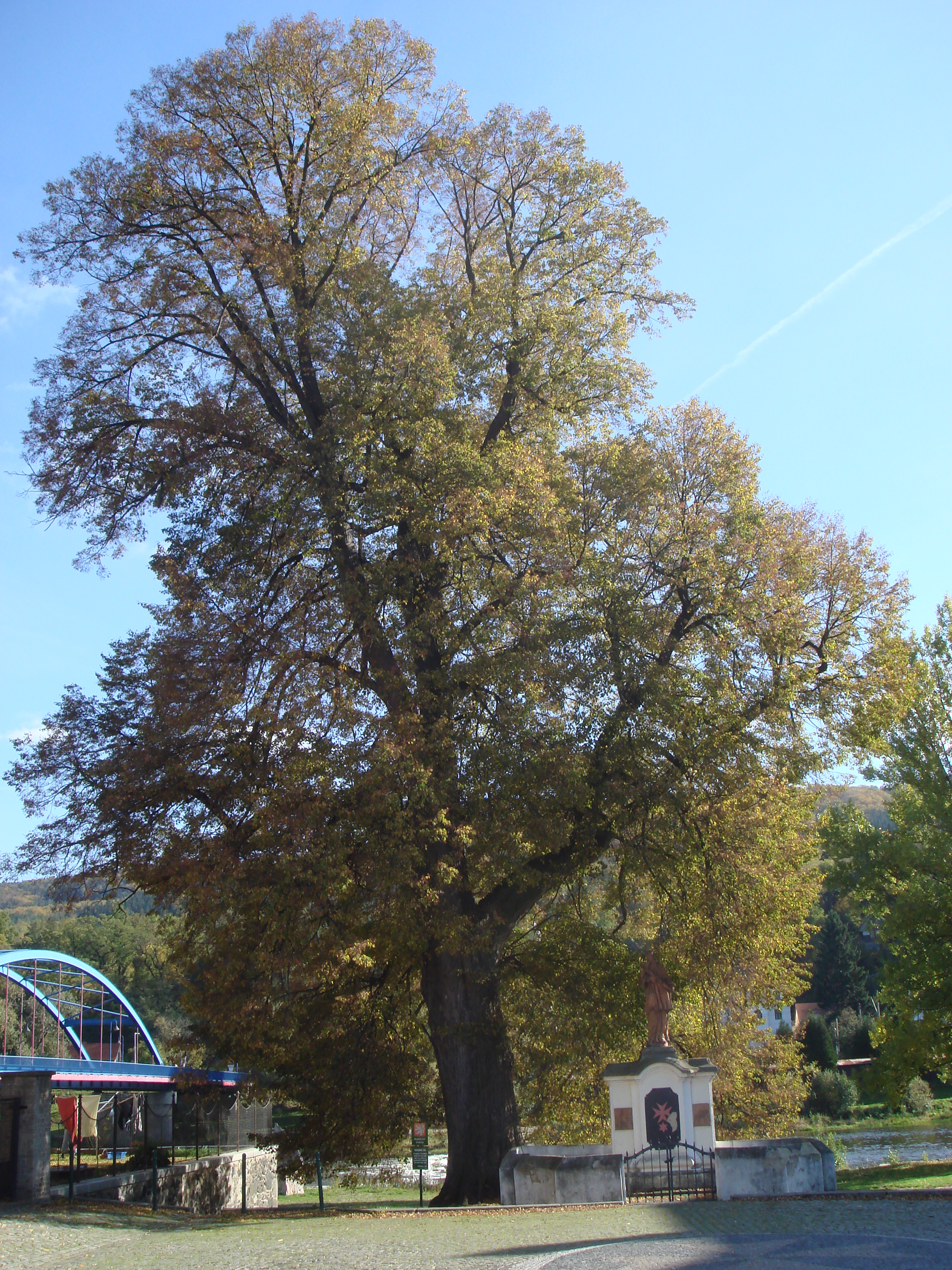 St. John's lime tree in Dobřichovice, planted in 1729 (Central Bohemian Region, Czechia).